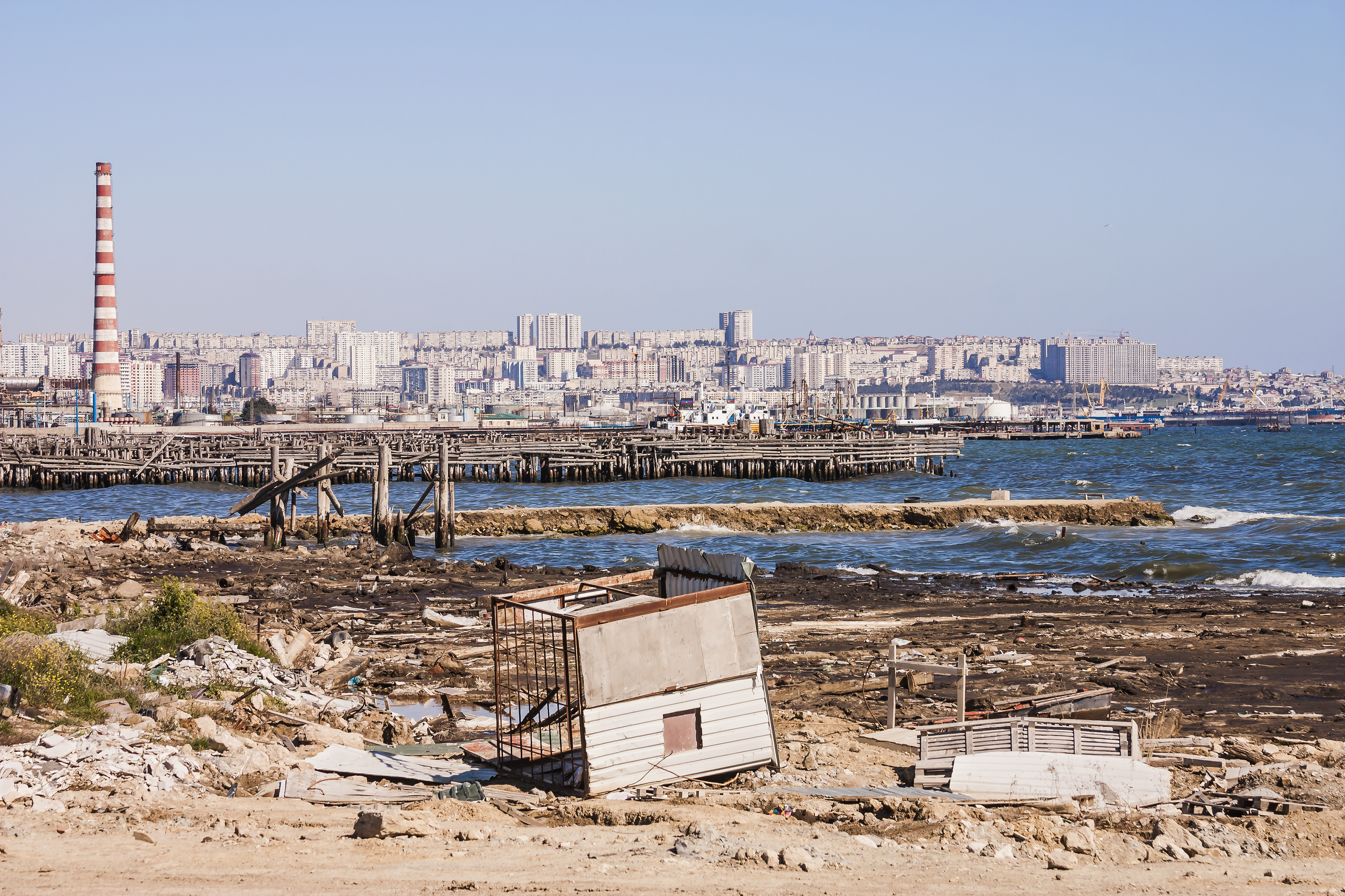 Dismantling of the old pier at the seaport.